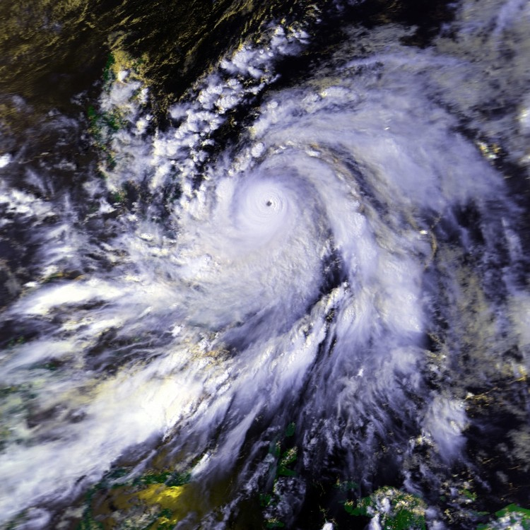 Typhoon Babs strengthening on October 20 at 0455 UTC. This image was produced from data from NOAA-14, provided by NOAA. The storm's maximum sustained winds were increasing from 115 knots.